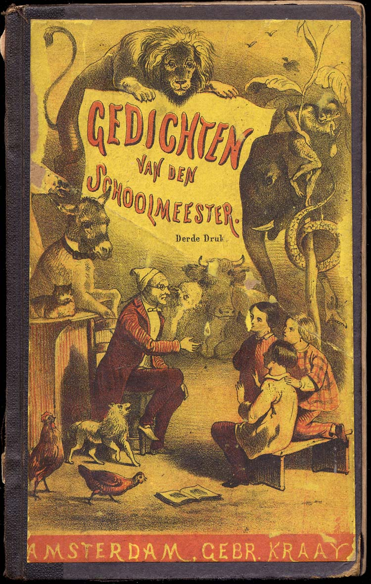 Cover of the 3rd edition (1861) of the Gedichten van den Schoolmeester.